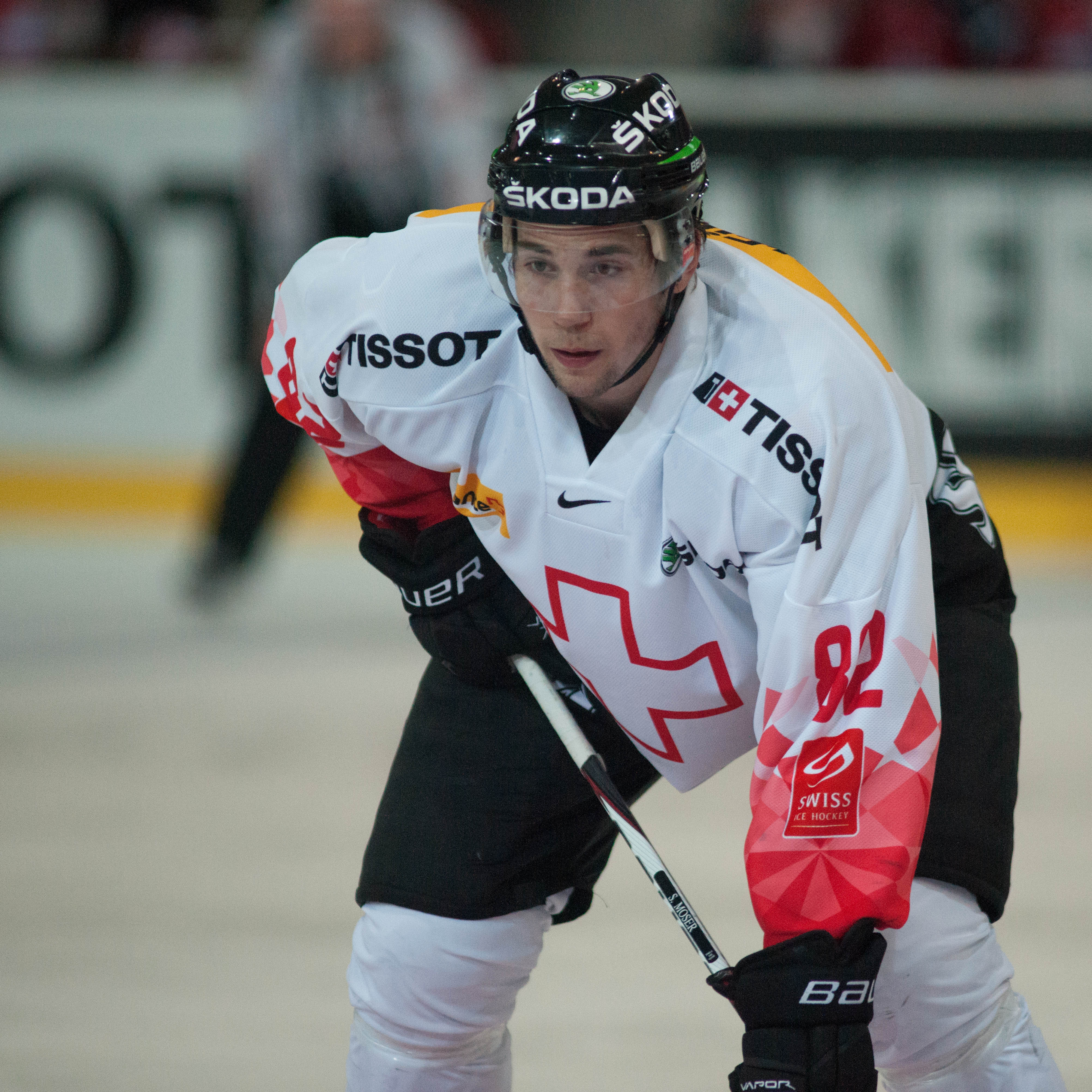 Switzerland vs. Canada, 29th April 2012